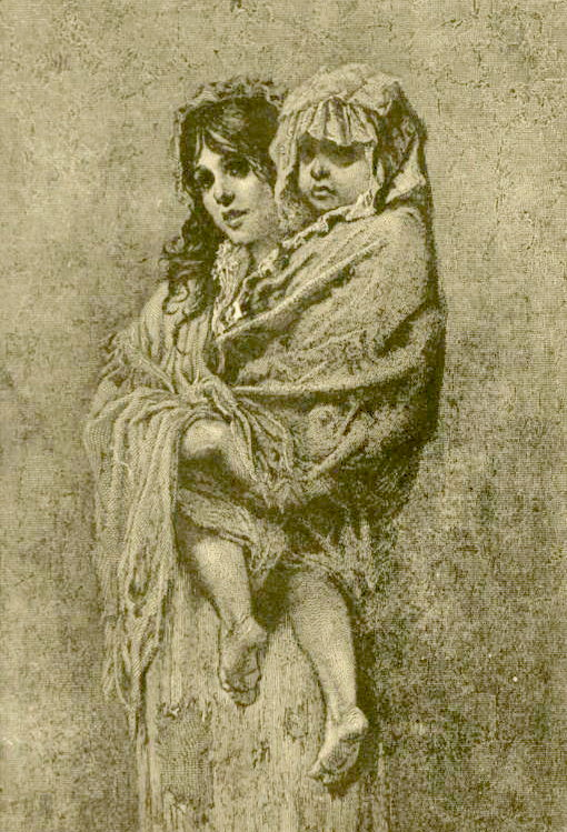 The Child-Mother, frontispiece illustration from Needham, Geo C. "Street Arabs and Gutter Snipes", Boston, 1884